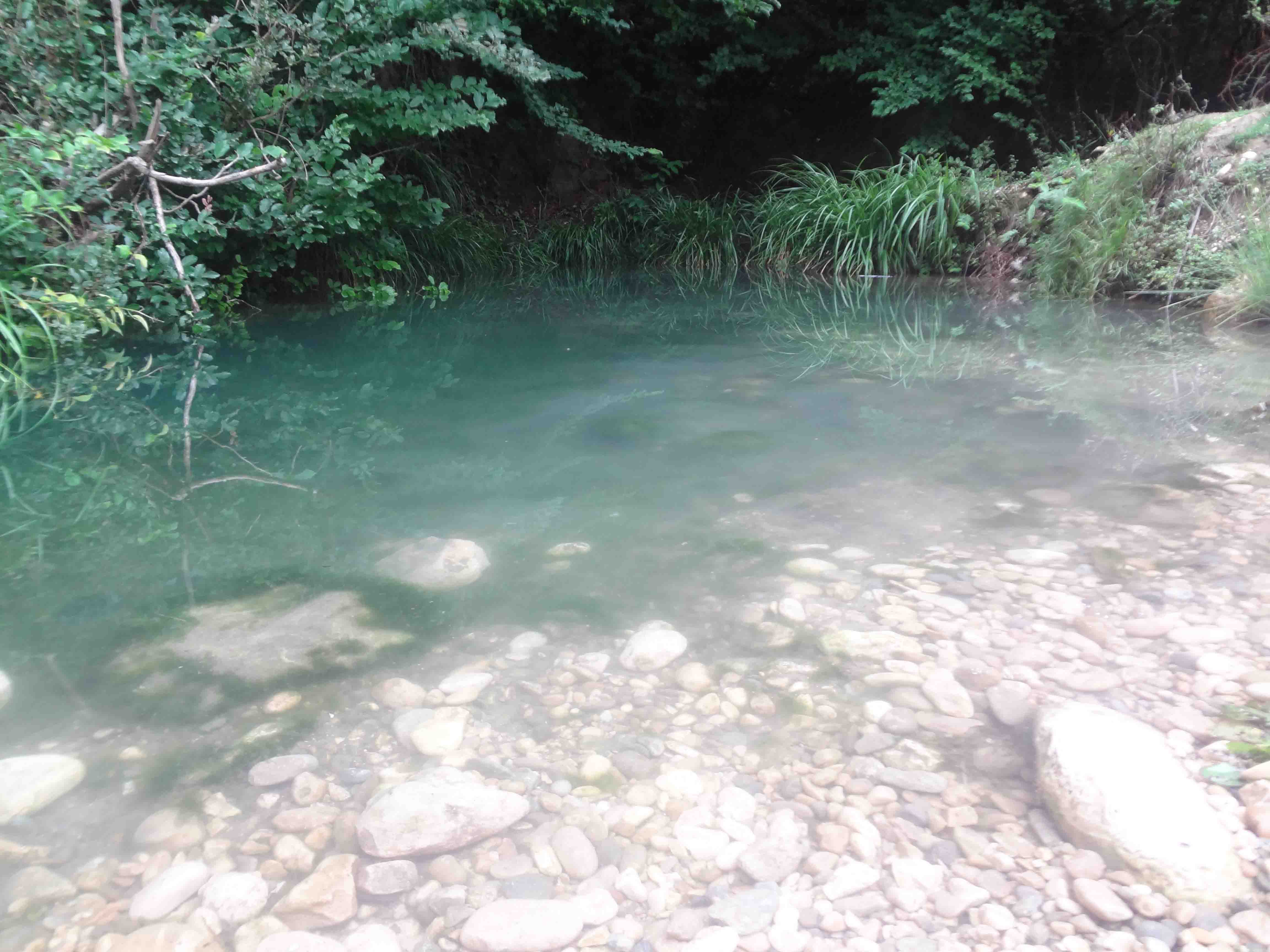 سرچشمه کئو که به خاطر کبود به نظر رسیدن آبش آن را کئو(کبود) می نامند